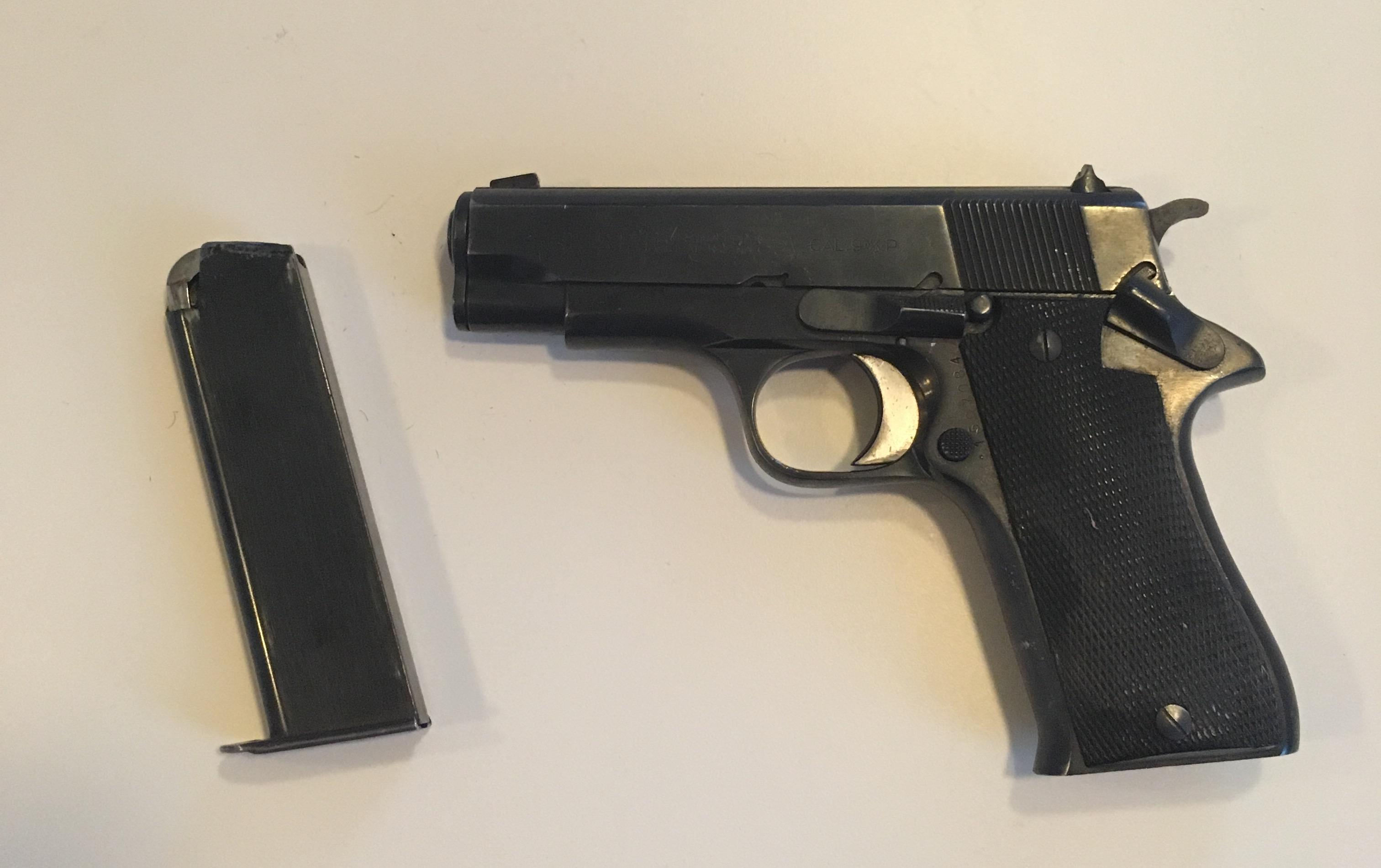 An Unloaded Star BM, reuploaded as it was my original work taken down without reason.